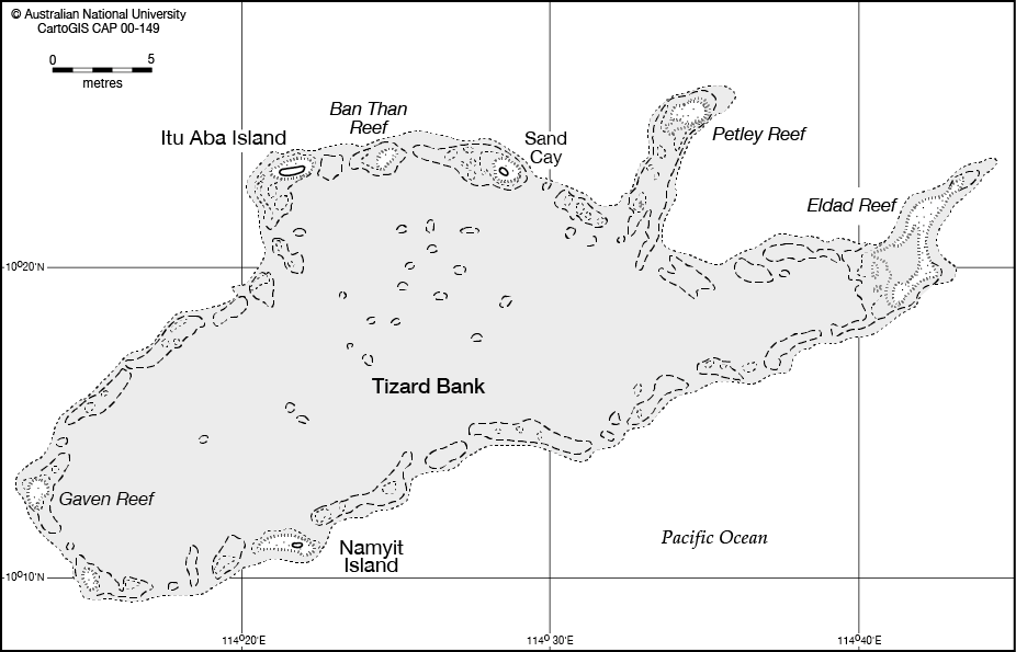 Sketch map of Tizard Bank, Spratly Islands, South China Sea